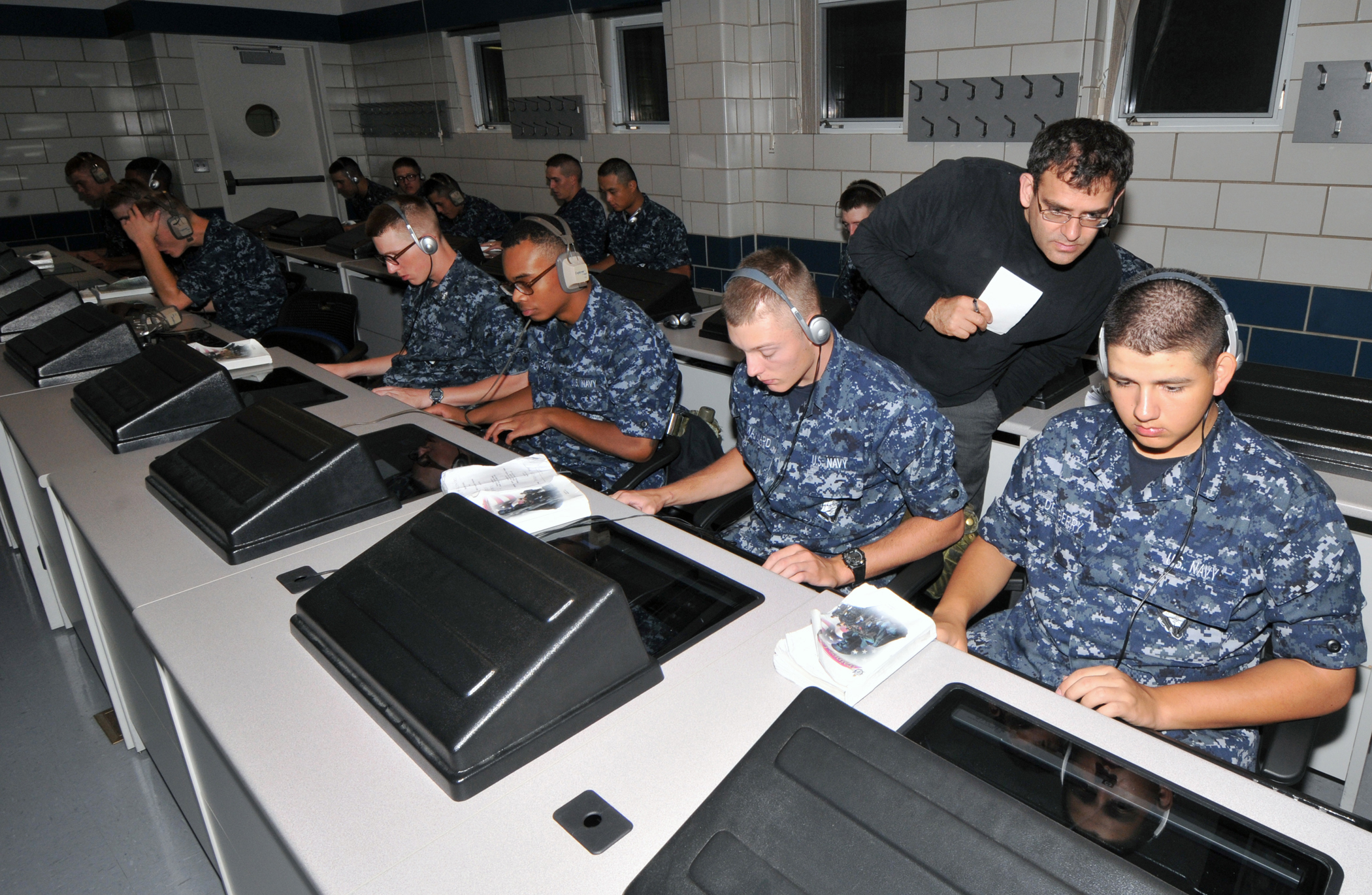 GREAT LAKES, Ill. (Sept. 16, 2010) Dr. Talib Hussain, senior scientist at BBN Technologies, looks over the shoulder of a recruit during a training session on the Virtual Environments for Ship and Shore Experiential Learning system at Recruit Training Command. The system is a computer game-based, first person role-playing training system that prepares recruits to handle Battle Stations, the final 12-hour test of 17 shipboard scenarios. The Battle Stations scenario includes fighting fires and stopping compartment flooding, and is required for recruits to graduate. (U.S. Navy photo by Scott A. Thornbloom/Released)